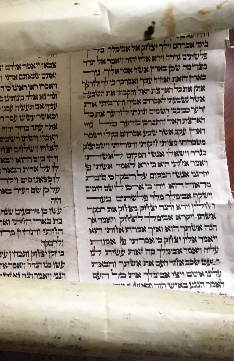 500 year old Torah scroll that has been down for generations as a Knanaya family heirloom.